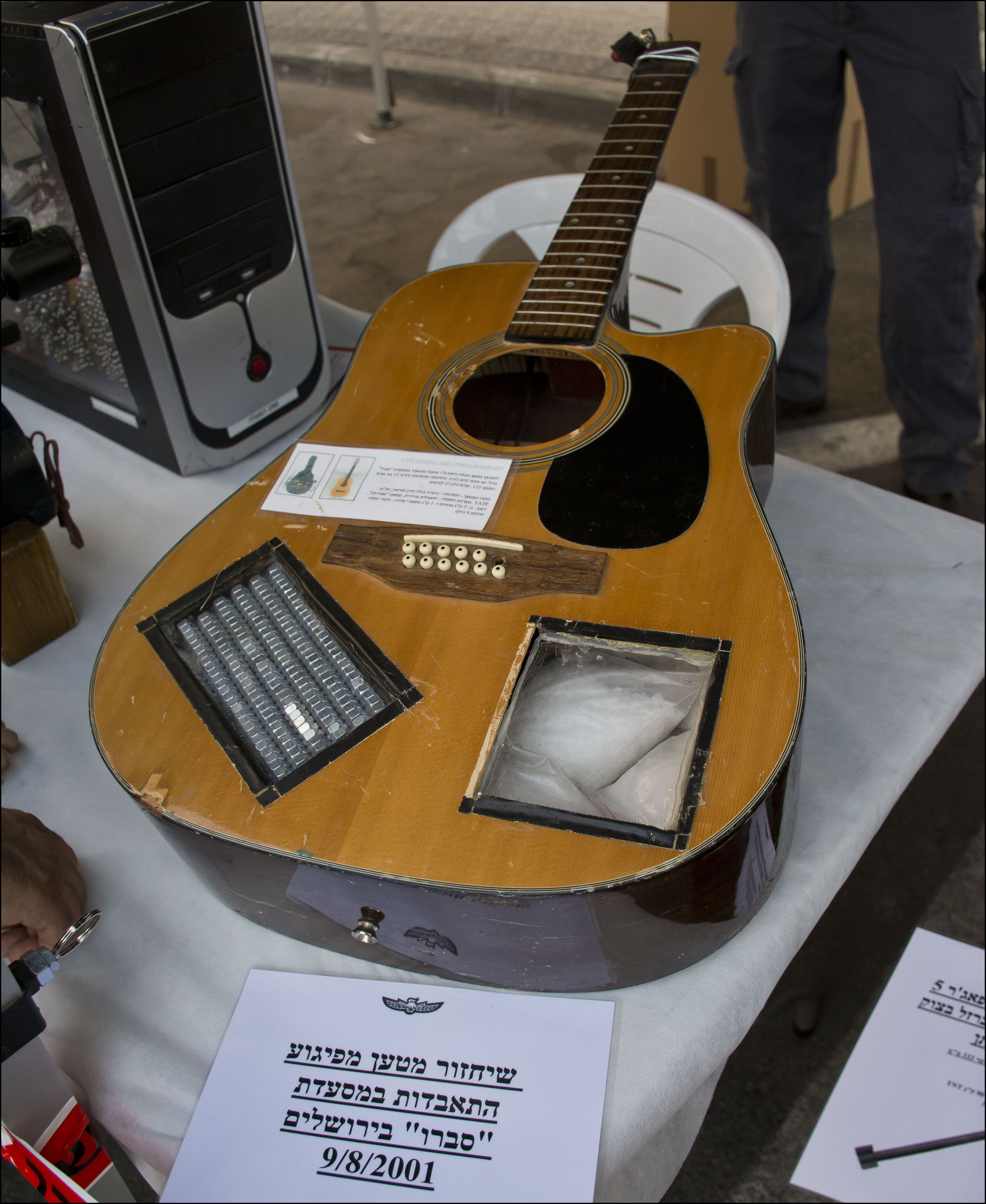 A model of the Palestinian IED, hidden as a guitar, that was used in the Sbarro suicide boming terror attack in Jerusalem 2001, Israeli Police Open Day in Rishon LeZion